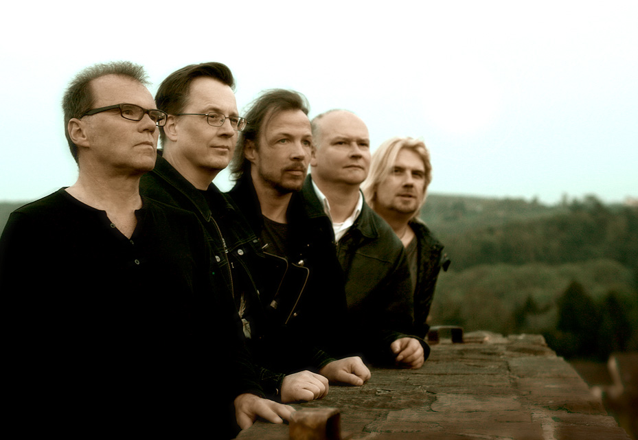 German Neo-Progressive Rock Band Karibow